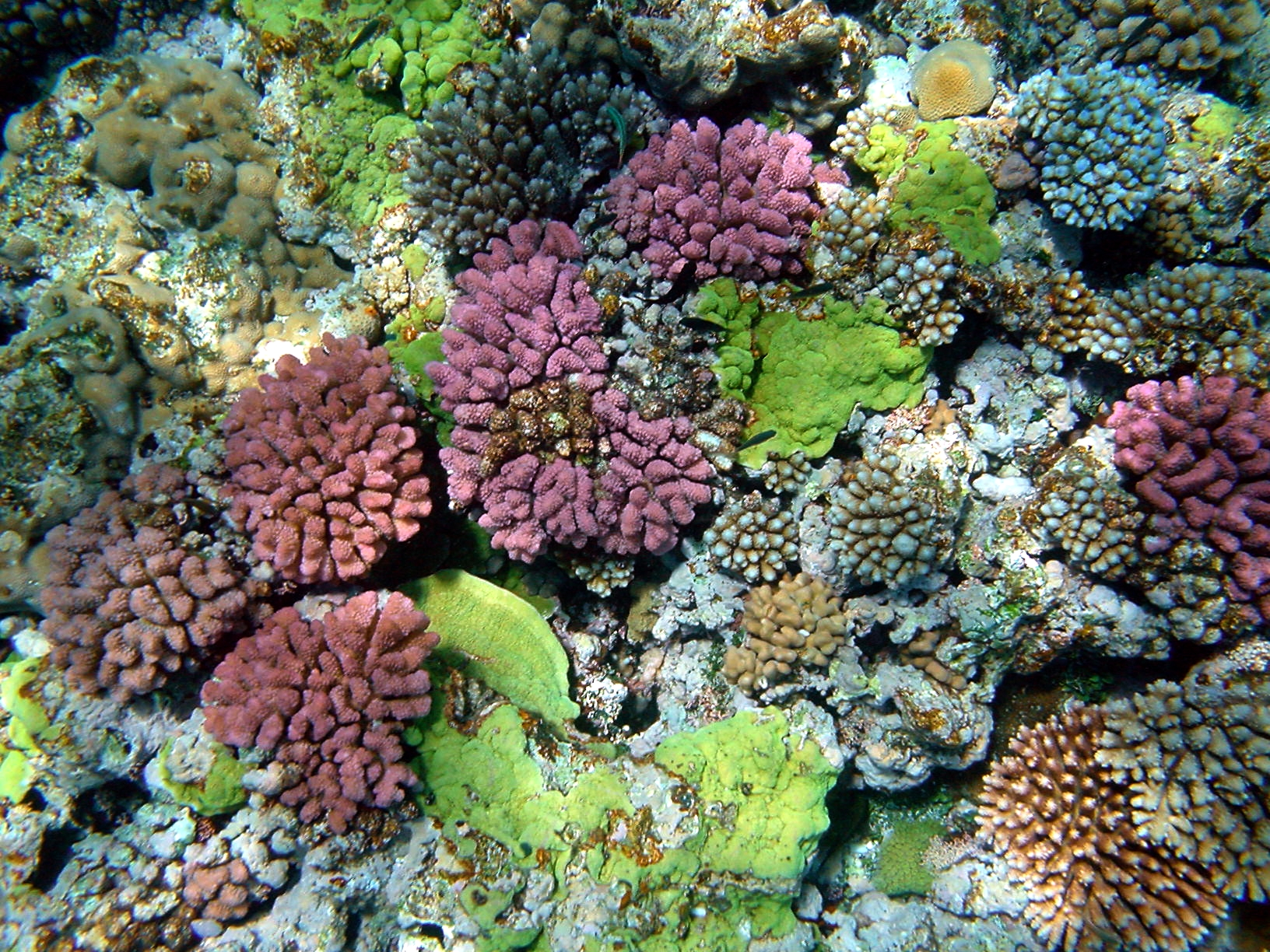 corals. The picture was taken in Papua New Guinea